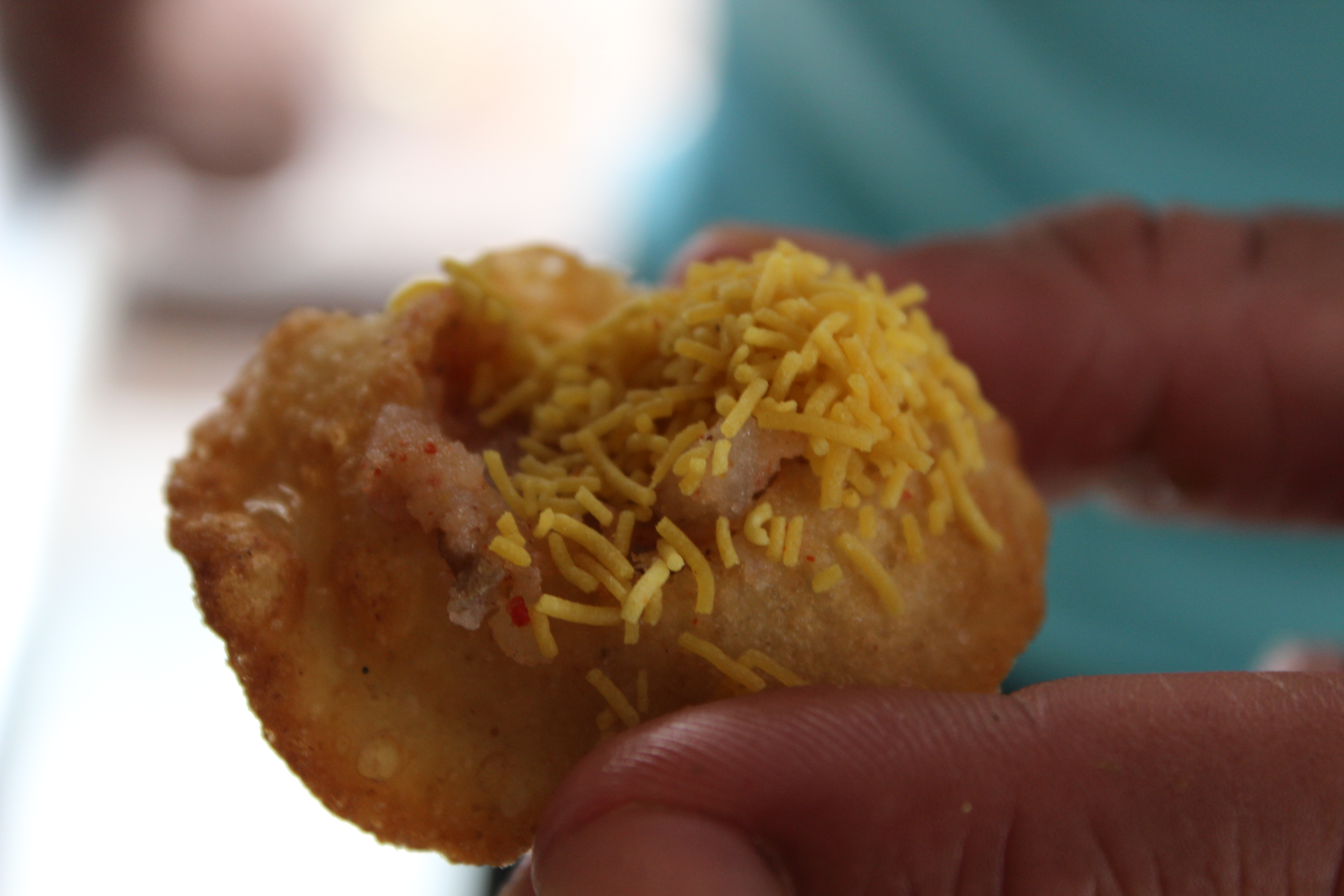 bhaiya ek sookhi dena...